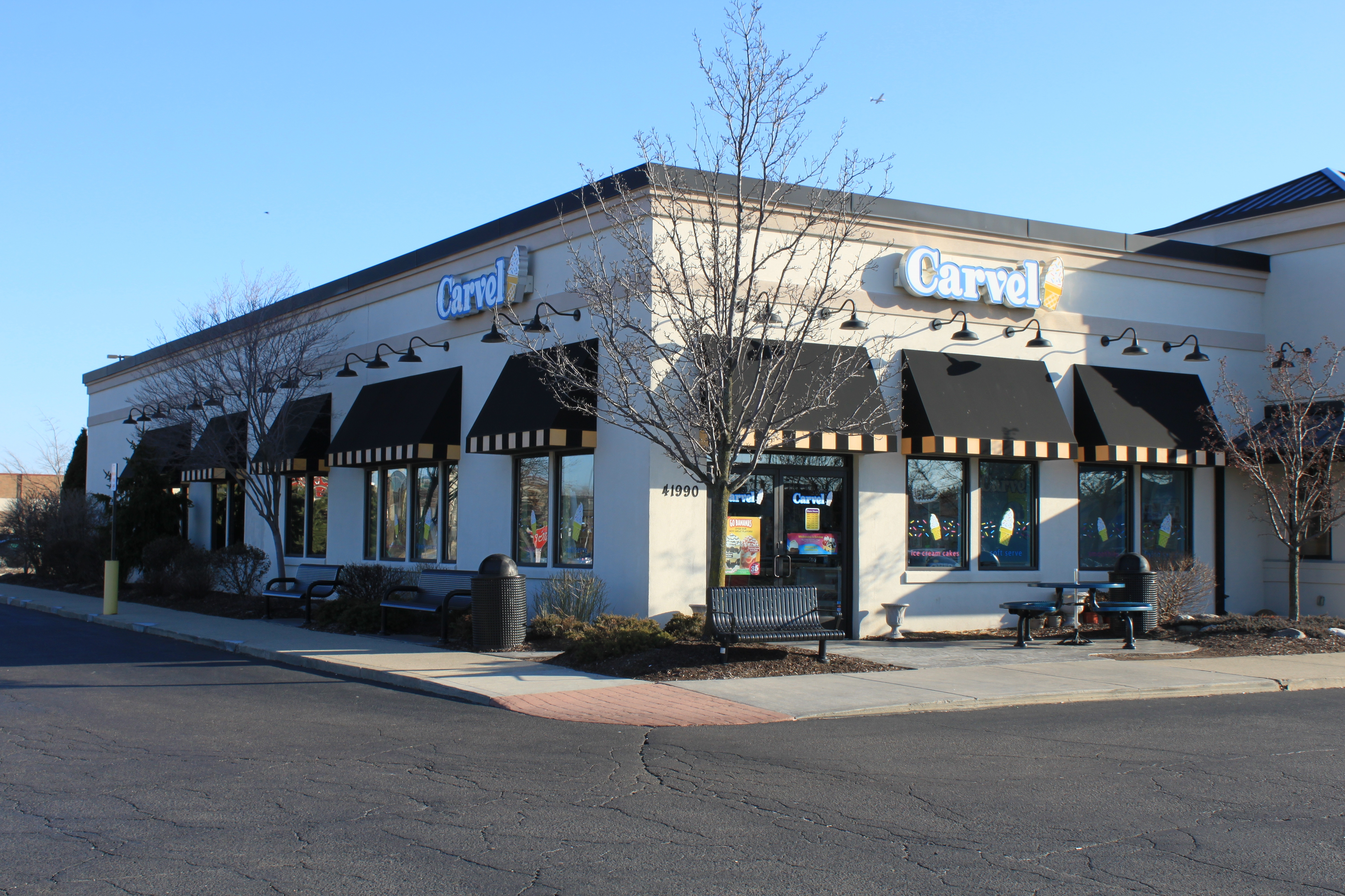 Carvel franchise restaurant, 41990 Ford Road, Canton, Michigan.